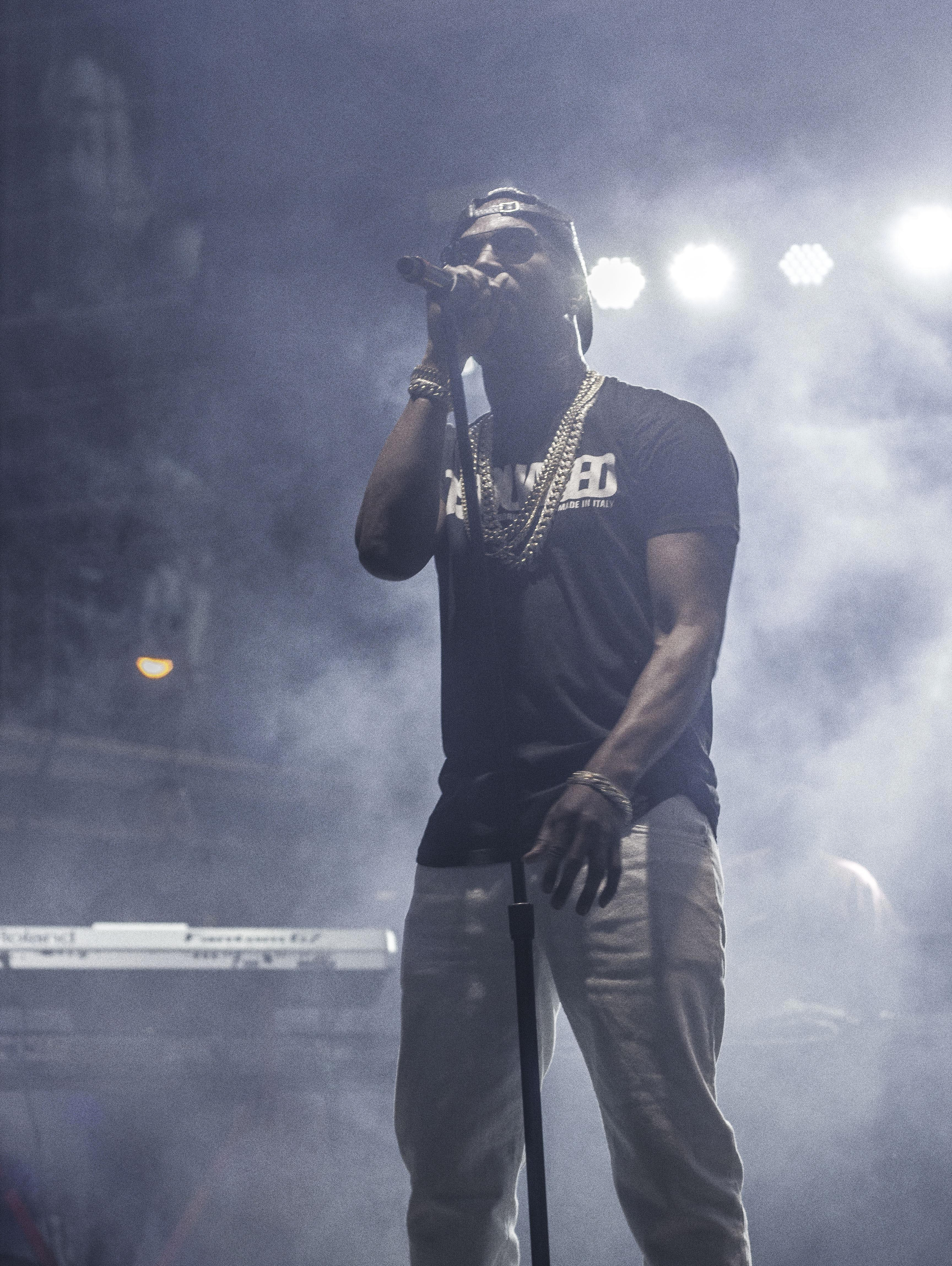 Juicy J at NXNE on June 22, 2014, in Toronto.